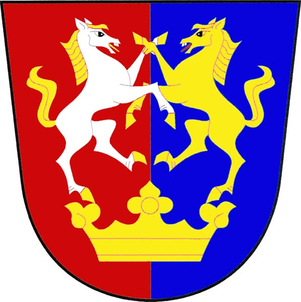 Coat of amrs of Koněprusy , District Beroun, Czech Republic